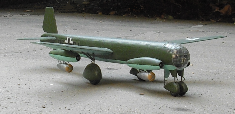 Model photo Junkers Ju 287 V1.